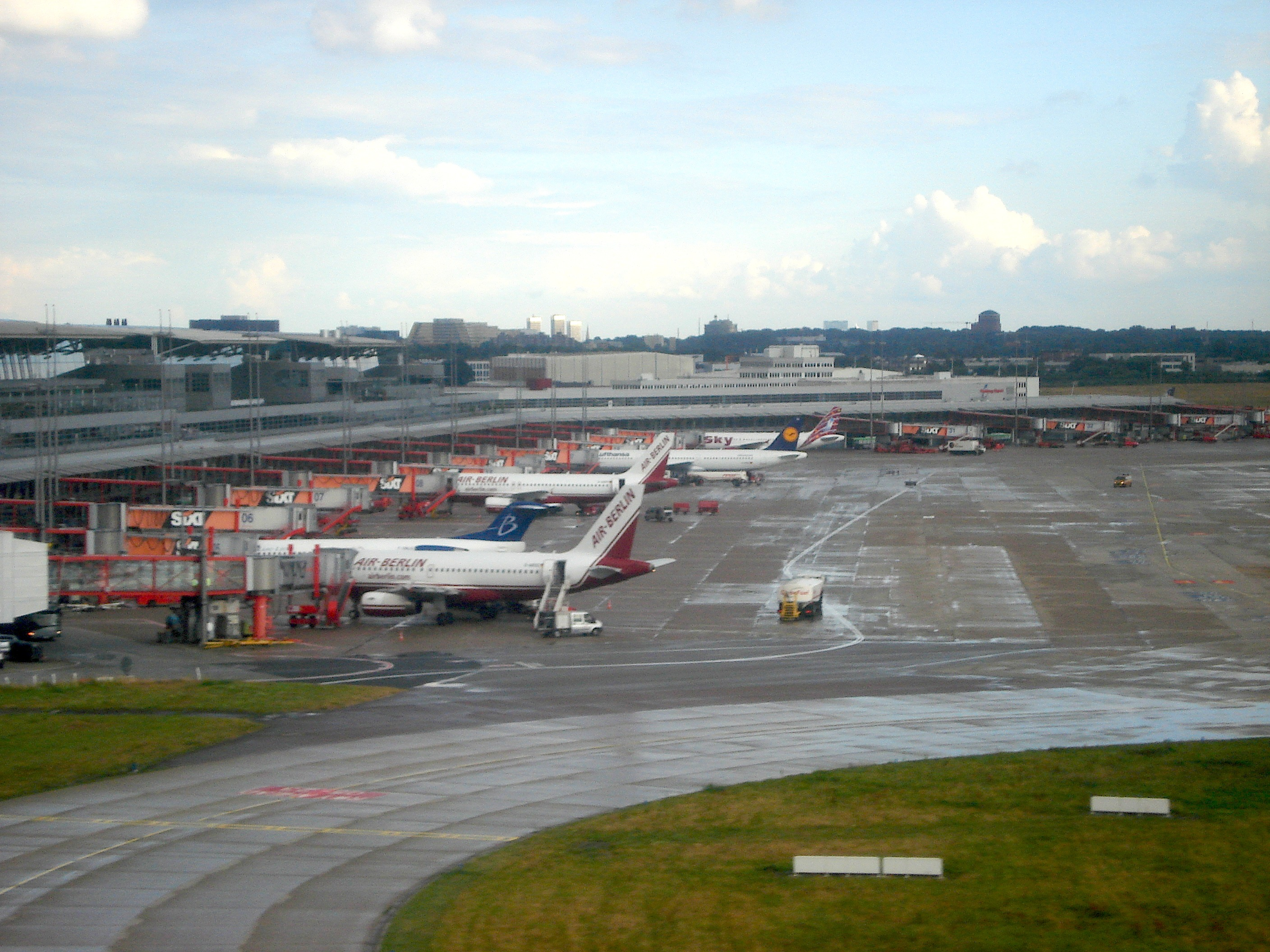 Terminal area at Hamburg Airport.